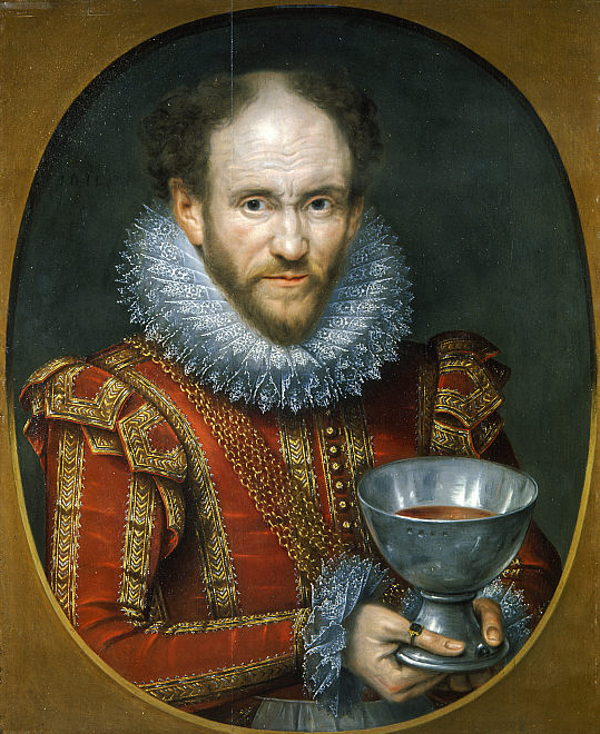 Tom Derry or Durie was the ‘fool’ employed by Queen Anne of Denmark, the wife of King James VI and I. Monarchs and some aristocrats maintained the medieval tradition of keeping a fool or jester as part of their household until well into the seventeenth century. Some jesters assumed the role as a profession, whereas others occupied the position because of a mental or physical impairment. A much-loved servant, the Queen commissioned portraits of Derry by two of her favourite artists. In this portrait by Gheeraerts, Derry is dressed in an expensive doublet embroidered with precious metals and with a heavy gold chain around his neck. He holds a hospitality cup, filled with red wine, which was shared by guests at ceremonial functions.